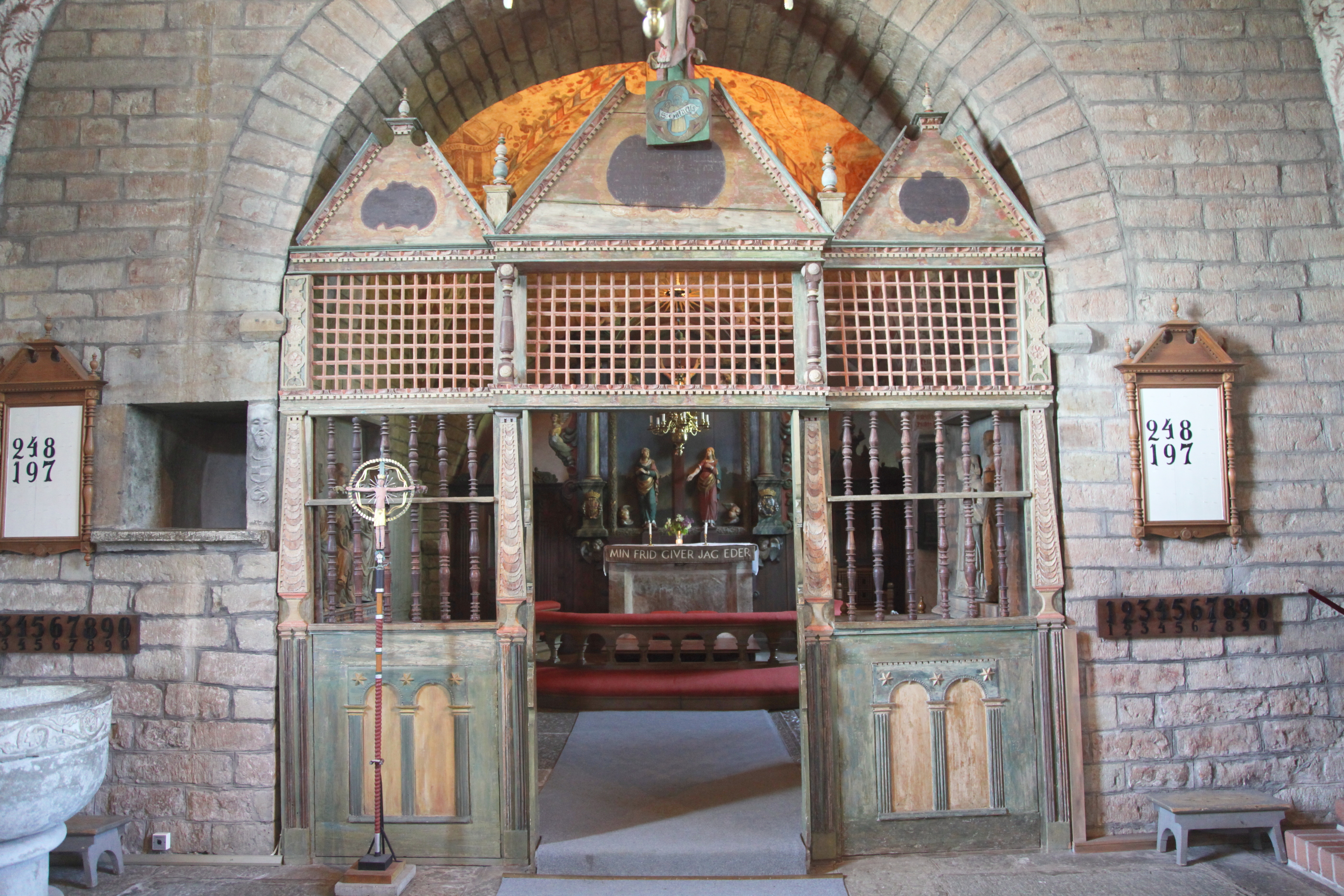 Interior in Husaby kyrka. A church near Lidköping - Google Maps - Google Earth